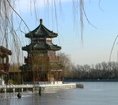 View on a building at the border of the Back Lake at Shichahai in Beijing, China